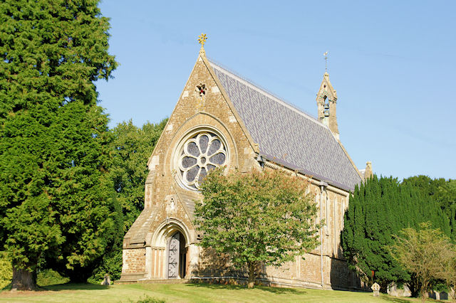 St Mary's Church Itchen Stoke Viewed from the west.